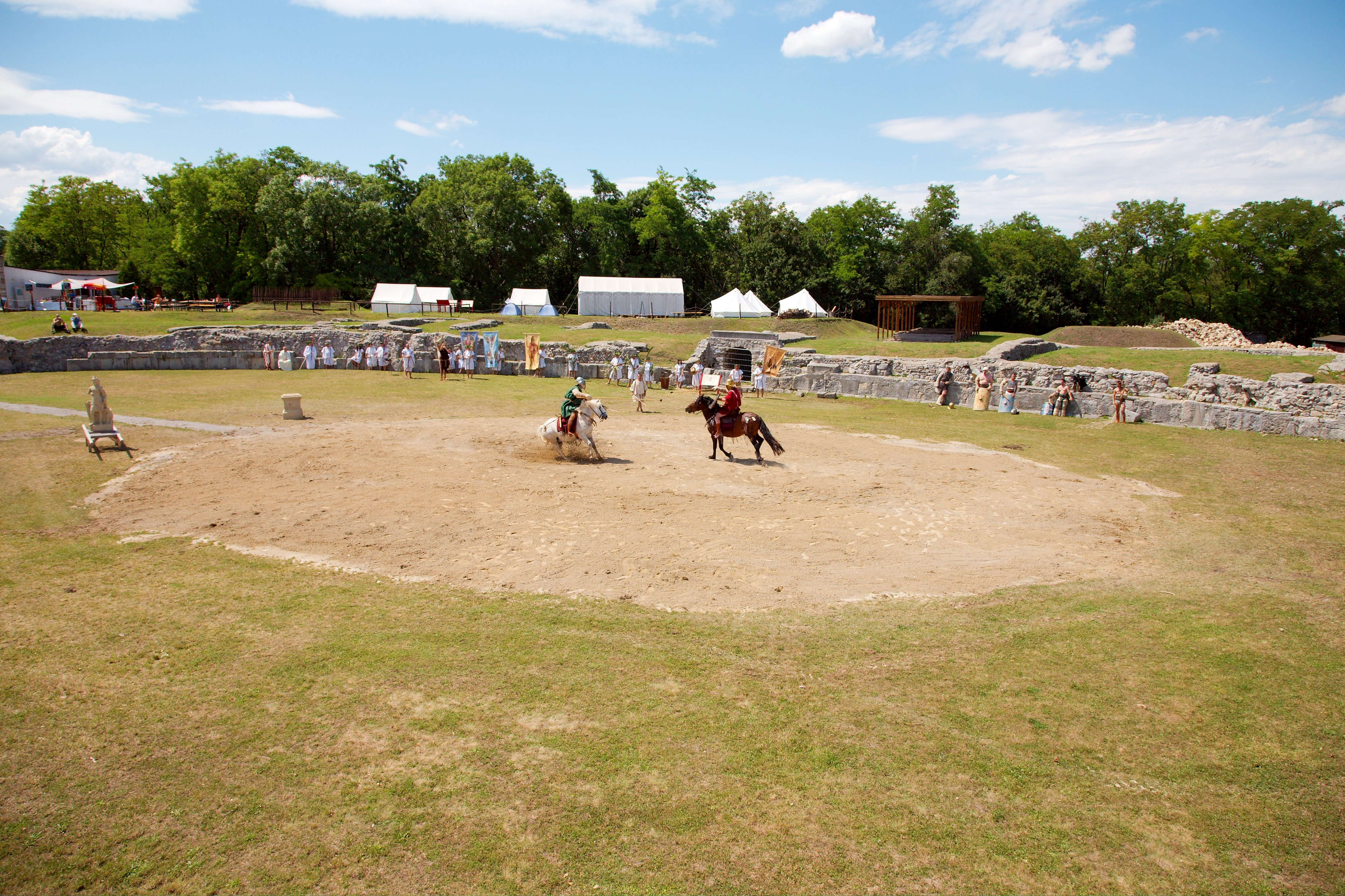 Gladiator "eques" during a show in Carnuntum.